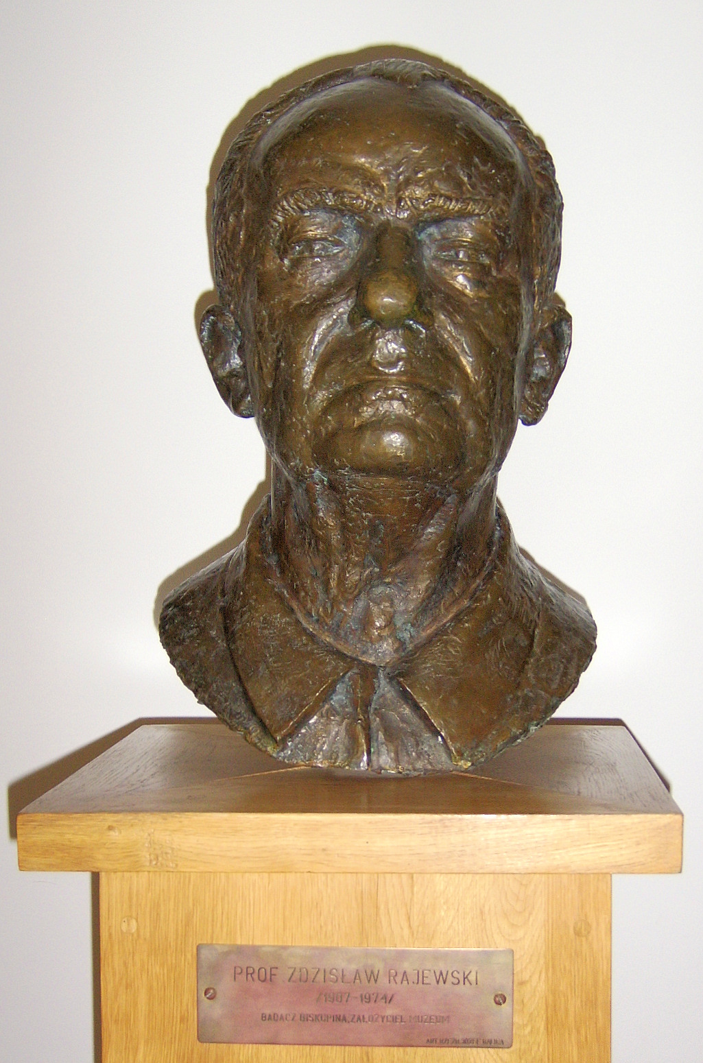 Bust of Zdzisław Rajewski